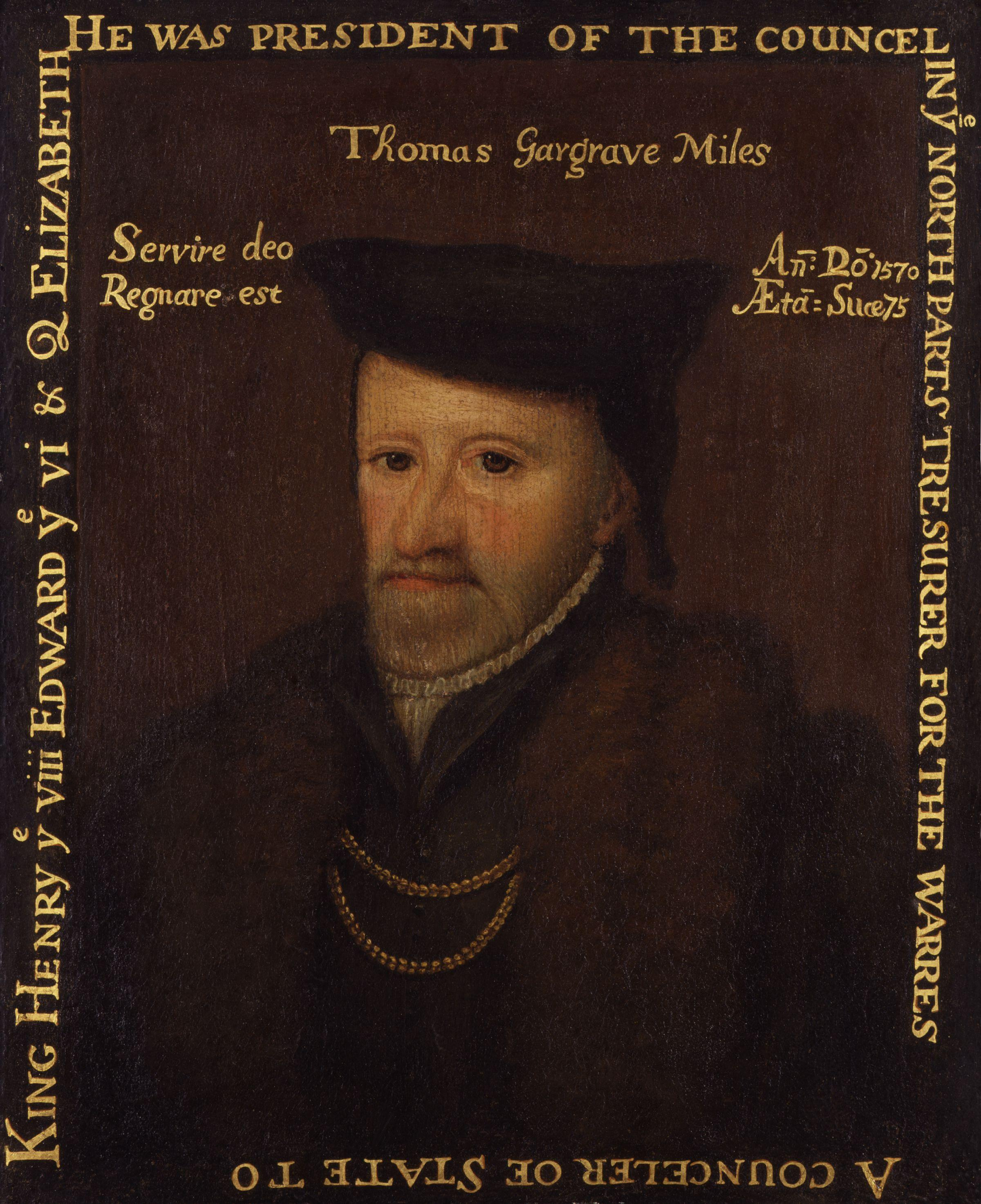 Sir Thomas Gargrave, by unknown artist. Sir Thomas Gargrave of Nostel Priory, Yorkshire, was Speaker of the House of Commons, 1558-1559. This portrait was exhibited at the Tudor Exhibition, 1890 (exhibit # 339).